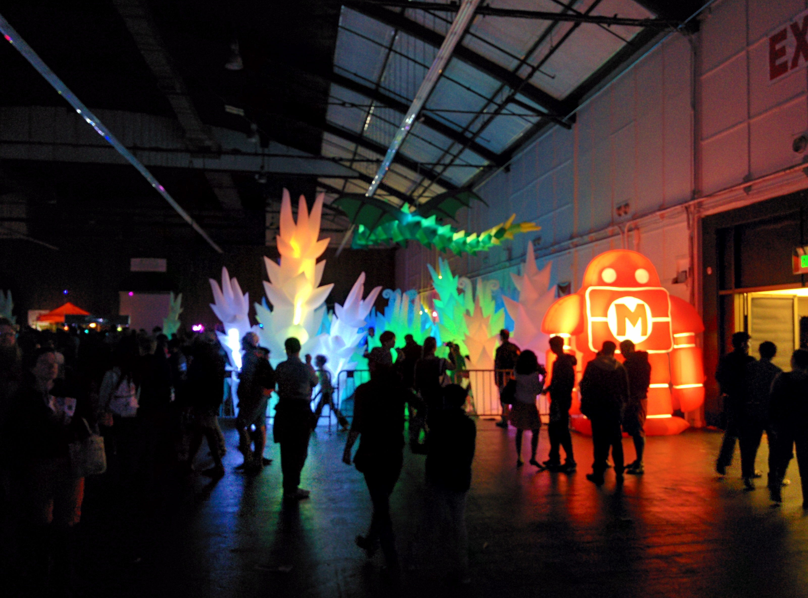 The Glow Forest installation at Maker Faire 2015 in San Mateo.